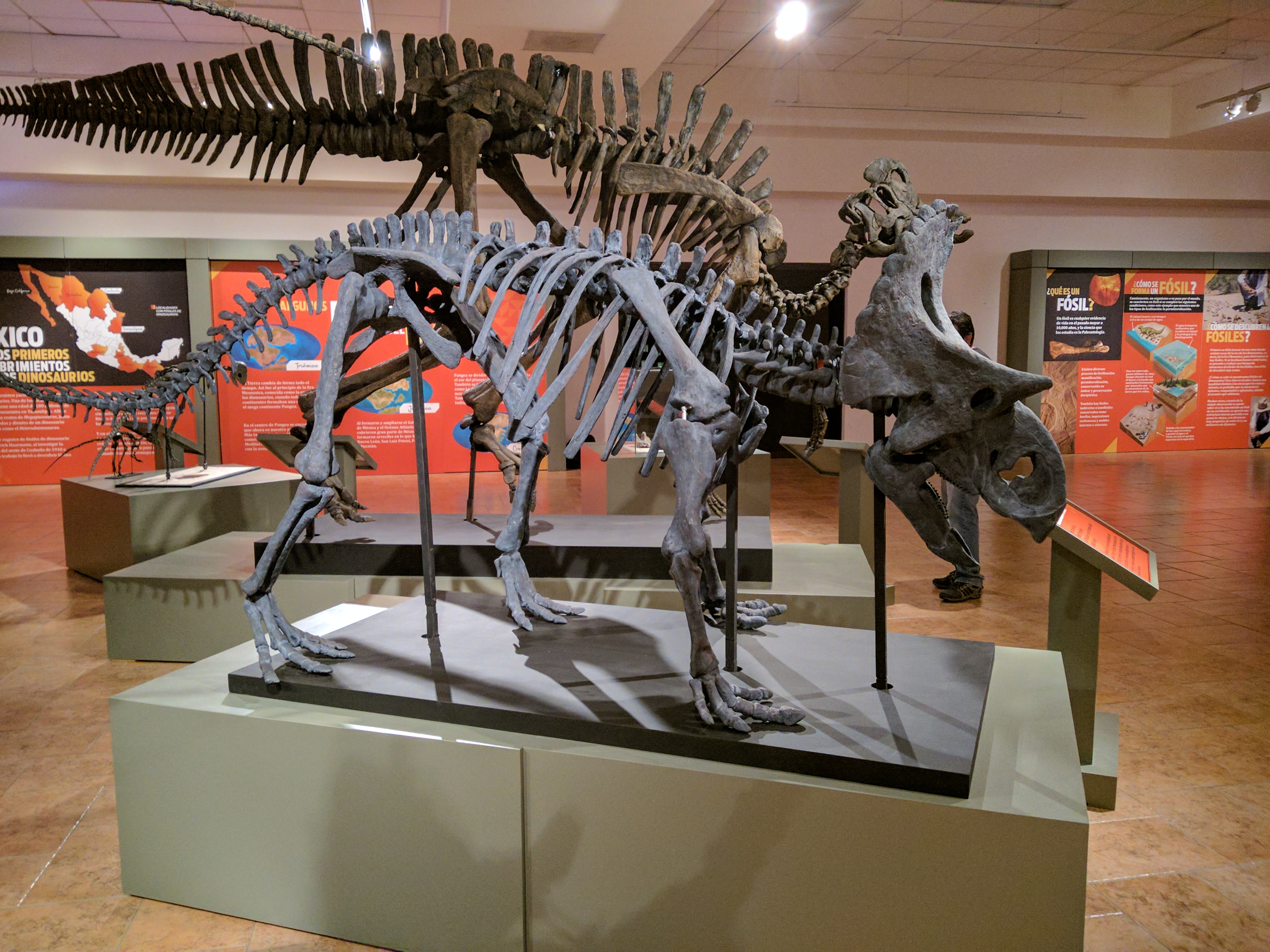 Yehuecuahceratops mudei skeletan mount at the temporary exhibition "Dinosaurios Ahora" in February 2016 at the Museum of the Desert, Coahuila, Mexico.